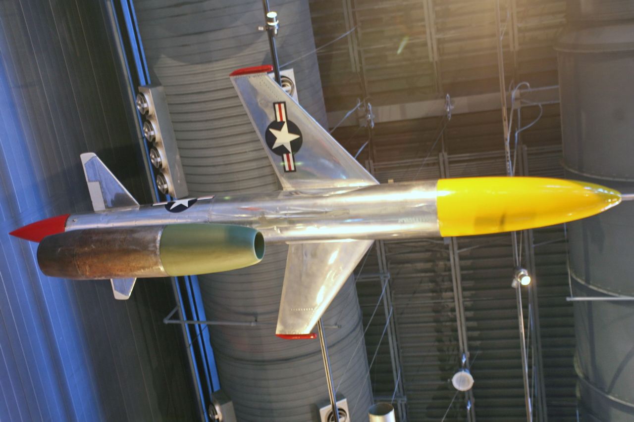 The subsonic, ramjet-powered, air-launched Gorgon IV was developed in 1946 as an air-to-surface missile. The Glenn L. Martin Company modified several Gorgon IV models for use as target drones, however, for launch from standard Mk 51 bomb racks under a P-61 aircraft. The Gorgon IV was considered the U.S.'s first successful ramjet missile although it never became operational. Twelve test flights of the Gorgon IV were made at the Naval Air Missile Test Center, Point Mugu, California. The tests went well and by late 1948 the Navy began fitting the USS Norton Sound for trials for launching the missile the deck, but the project was cancelled in 1949. The missile shown here appears to have been flown and recovered. It was donated to the Smithsonian in 1966 by the U.S. Navy. Steven F. Udvar-Hazy Center.